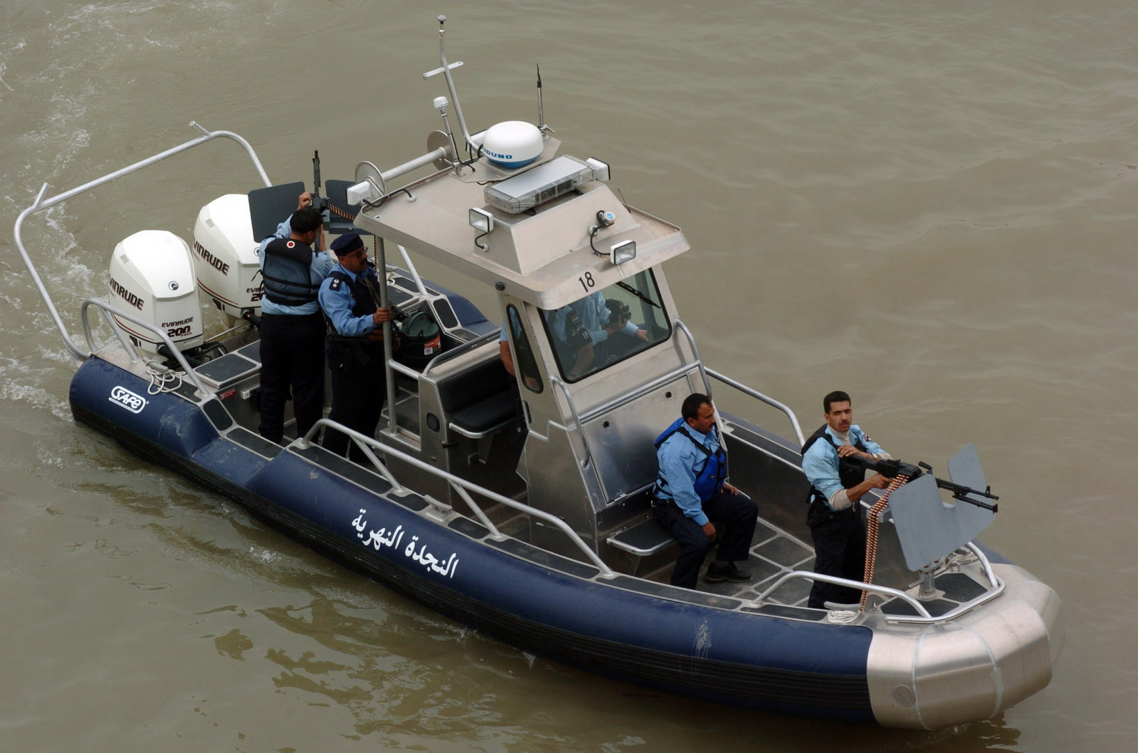 Baghdad, Iraq, (April 5 2006) - Iraqi Police River Unit conduct a joint mission with the members of the Quick Reaction Force assigned to the 320th Field Artillery, 4th Brigade Combat Team, 101st Airborne Division, along the Tigris River. The mission was conducted to search various small islands for hidden weapons caches and insurgent transportation routes along the river.